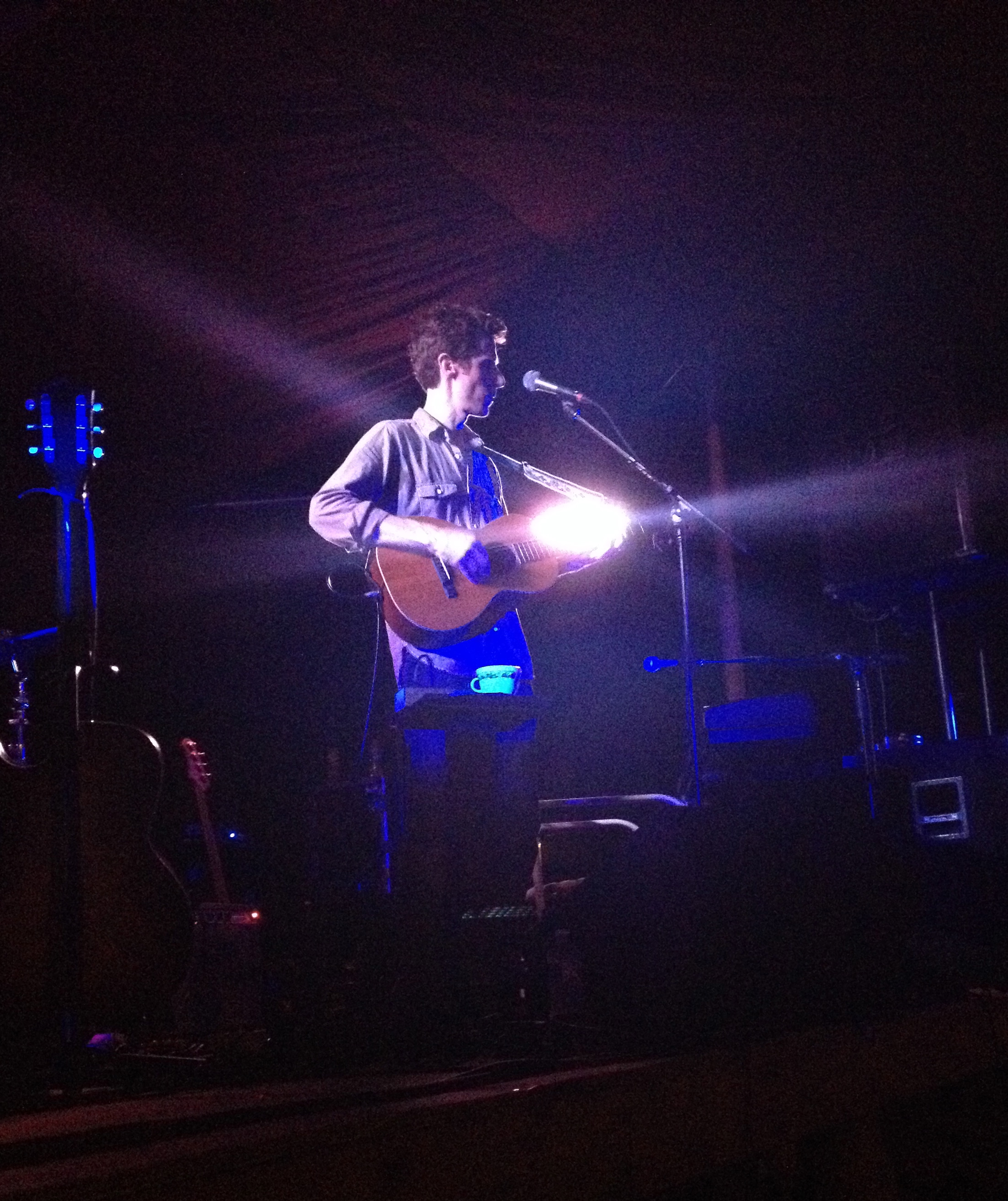 Daniel Martin Moore performing at Pollination Fest in Petersburg, KY on June 21, 2014